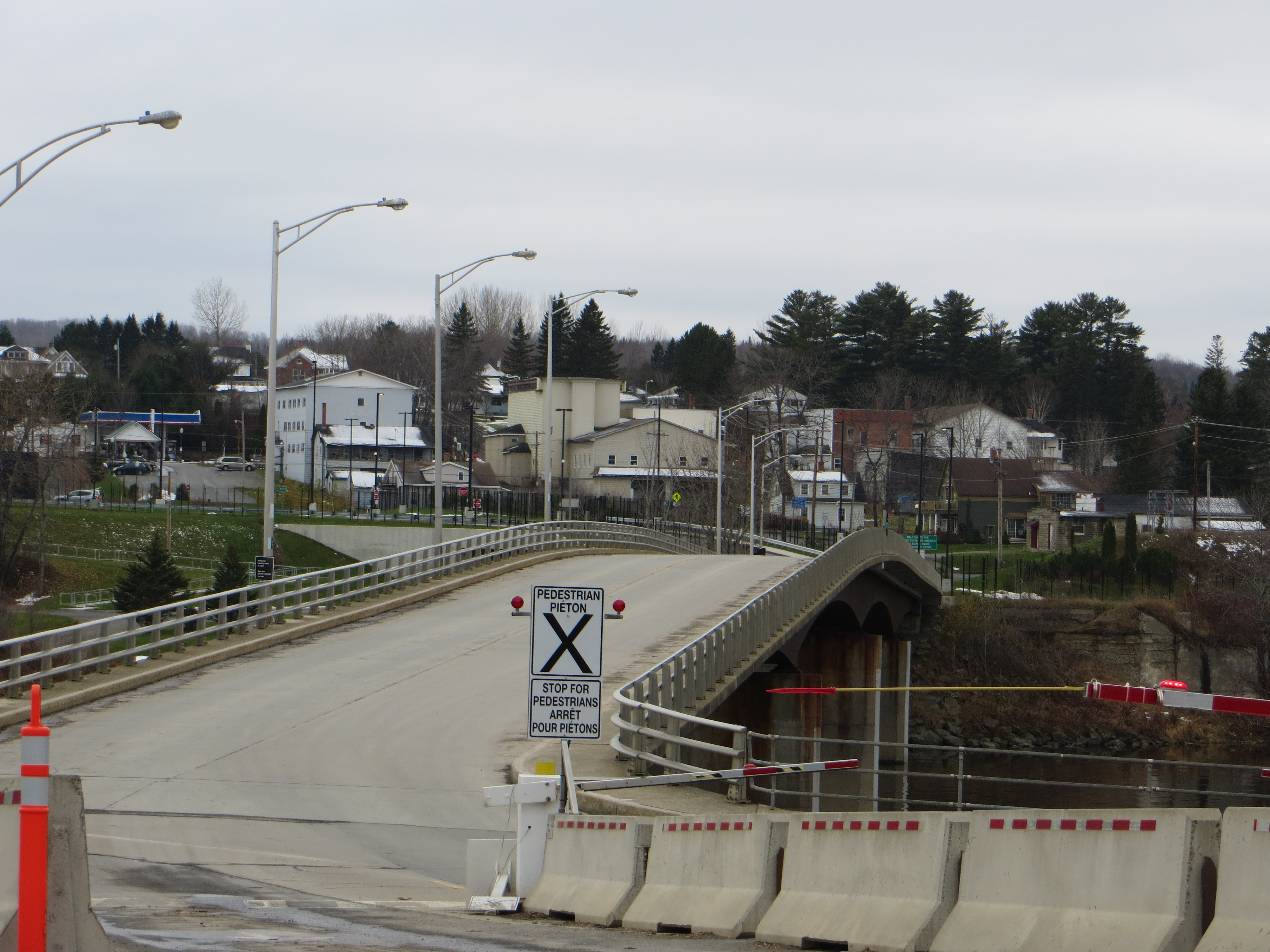 Van Buren's view from the Canadian border